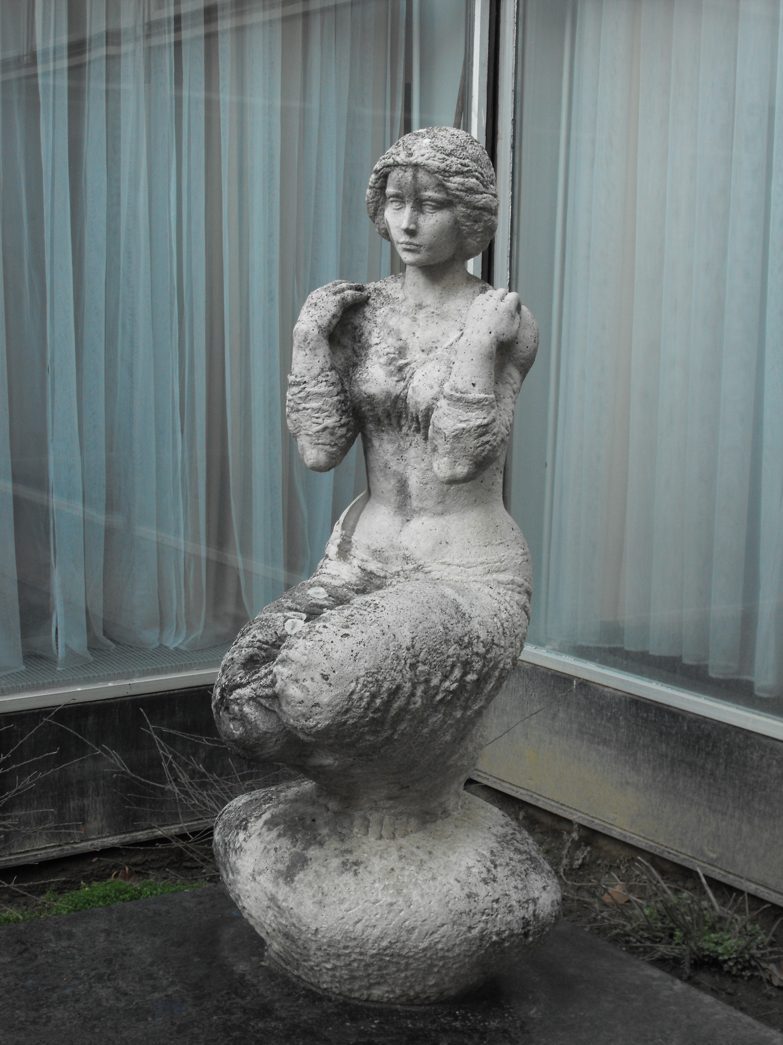 The statue of the "Kavicson ülő lány" (Girl sitting on a pebble in English) in Makó, Hungary. Sculptor is Valéria Tóth.